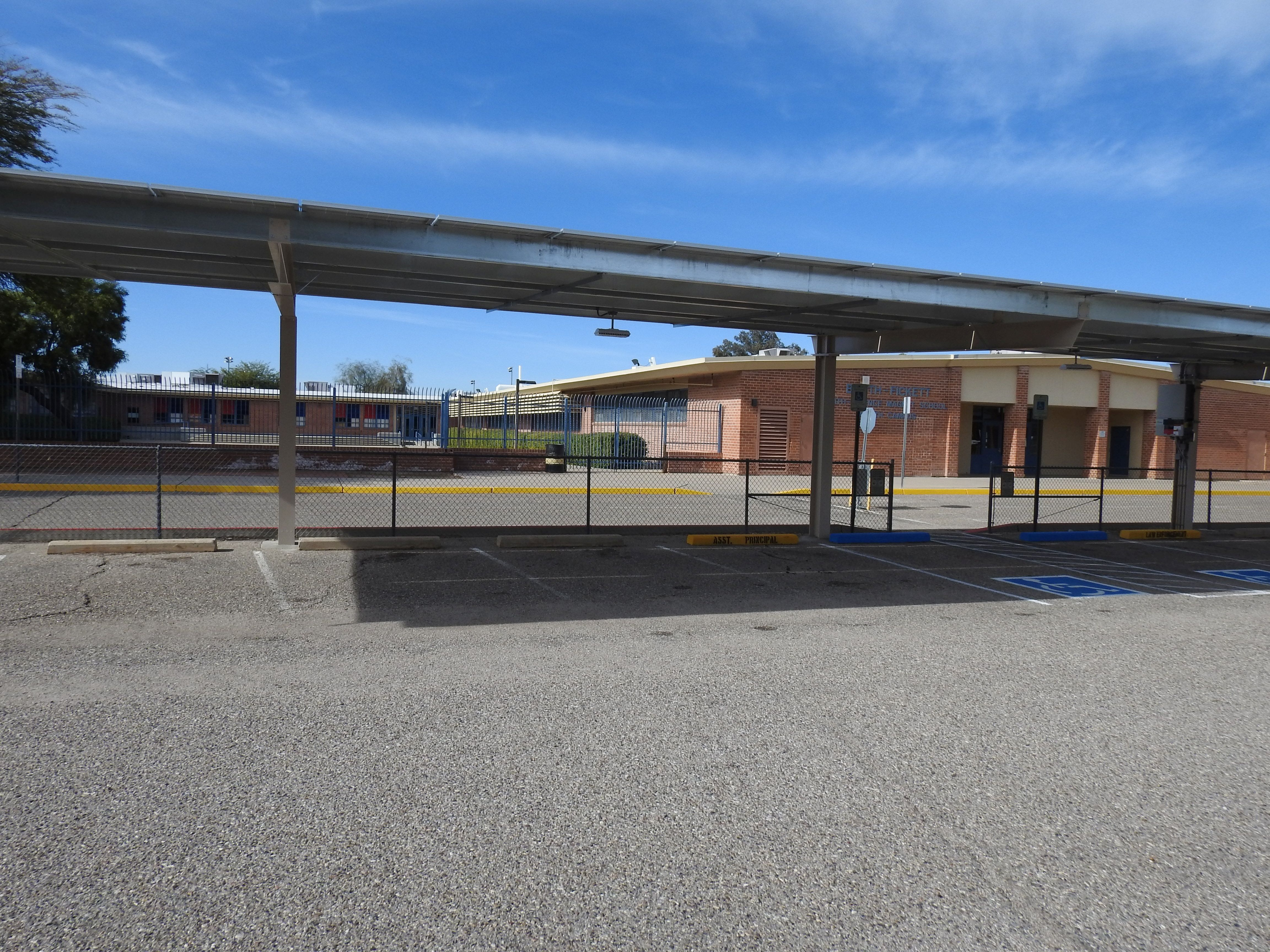 Architect: Willi Cahn (William H. Carr)